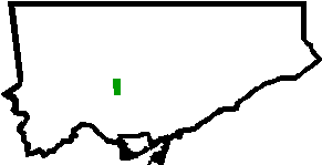 Locator map for Humewood-Cedarvale in Toronto, Ontario, Canada. Based off locator maps created by user Alaney2k.